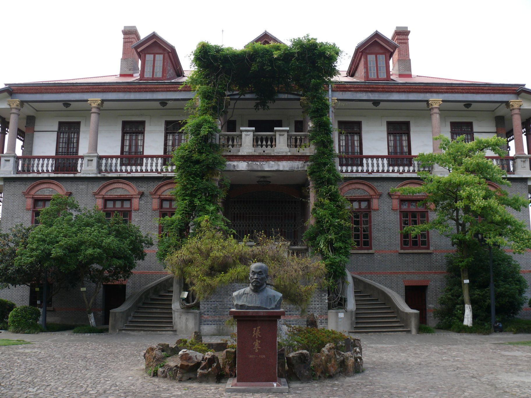 Historical building of Nantong Museum (Jiangsu, China).